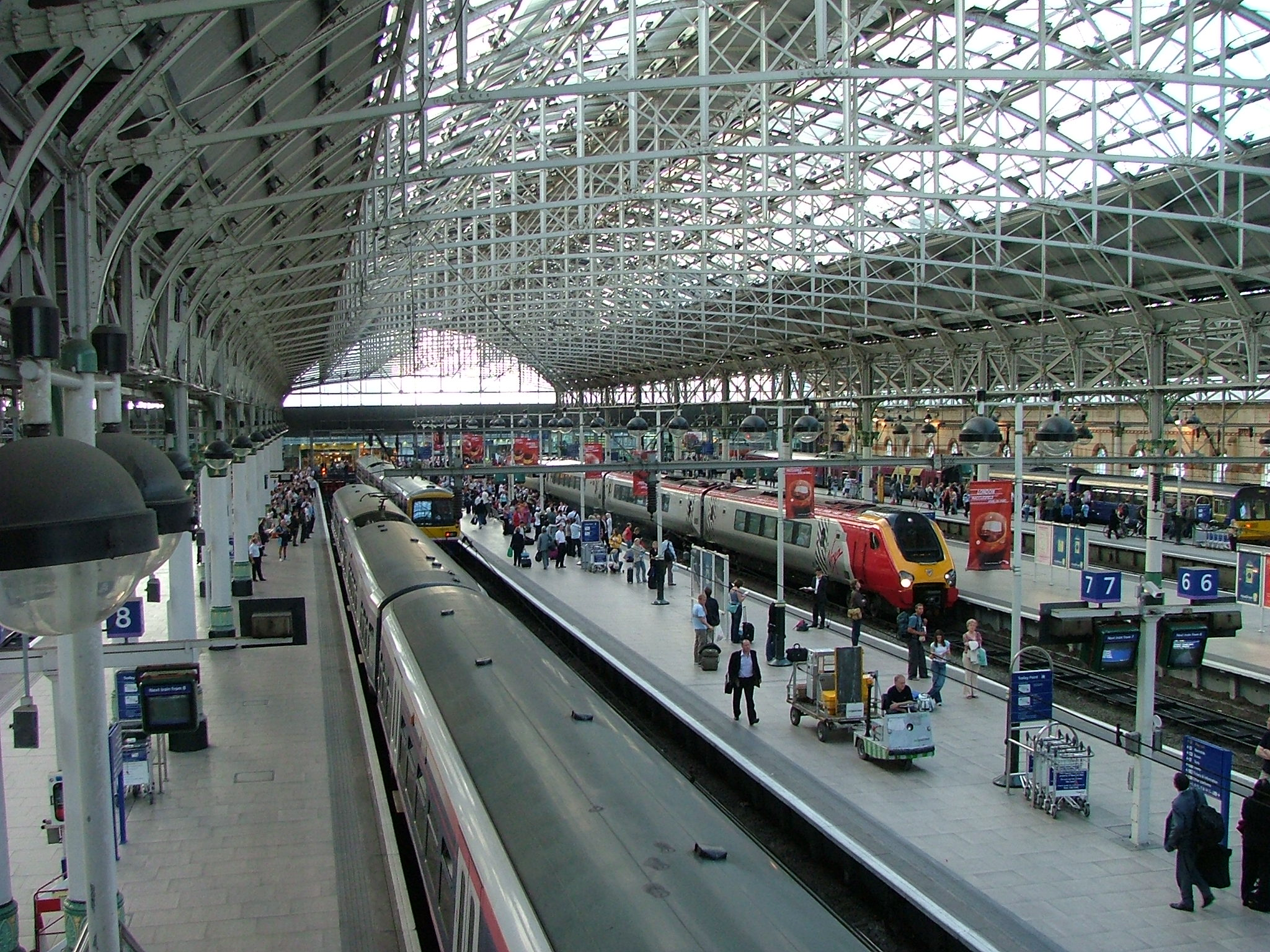 The view into Manchester Piccadilly station, notice the Victorian Roof - the iron work is pretty much original.Piccadilly Station, Manchester